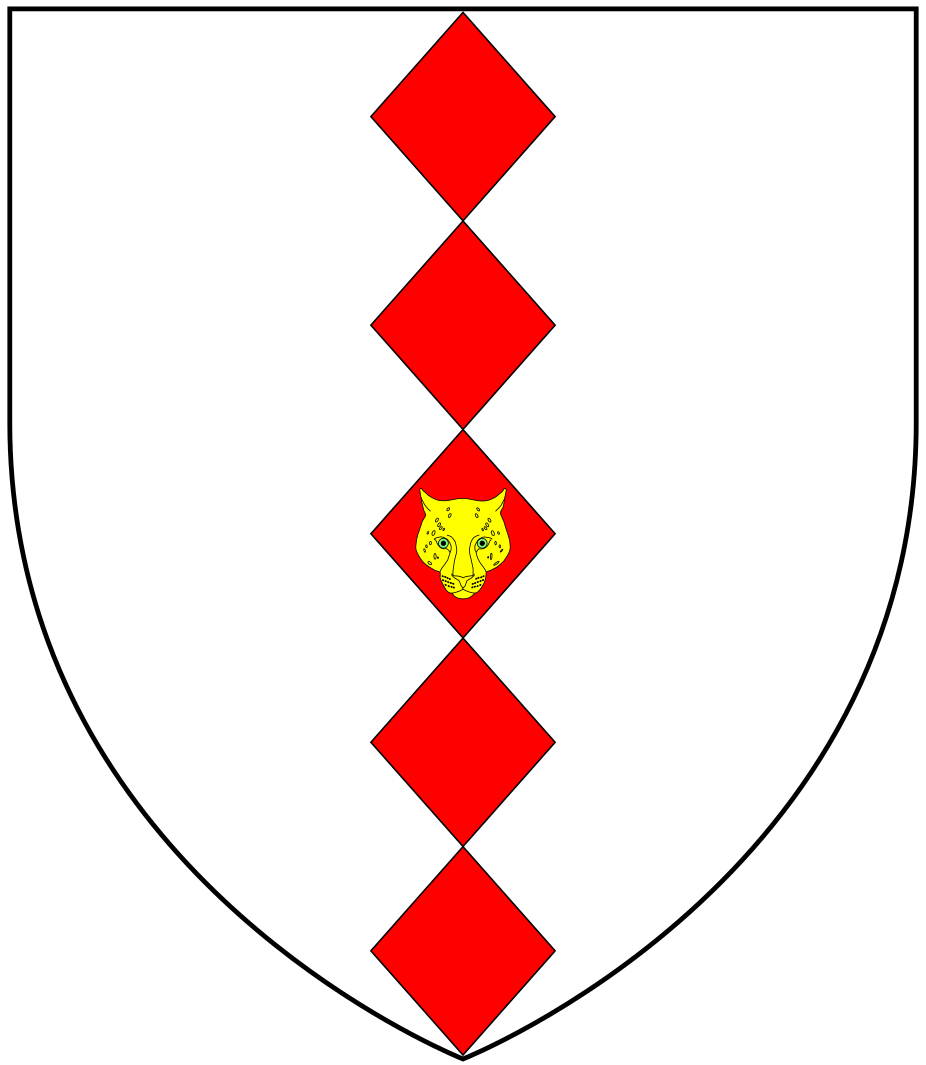 Arms of Hele of Hele in the parish of Cornwood and of Flete, Holbeton, both in Devon: Argent, five fusils in pale gules on the middle one a leopard's face or (Vivian, Lt.Col. J.L., (Ed.) The Visitations of the County of Devon: Comprising the Heralds' Visitations of 1531, 1564 & 1620, Exeter, 1895, p.461)